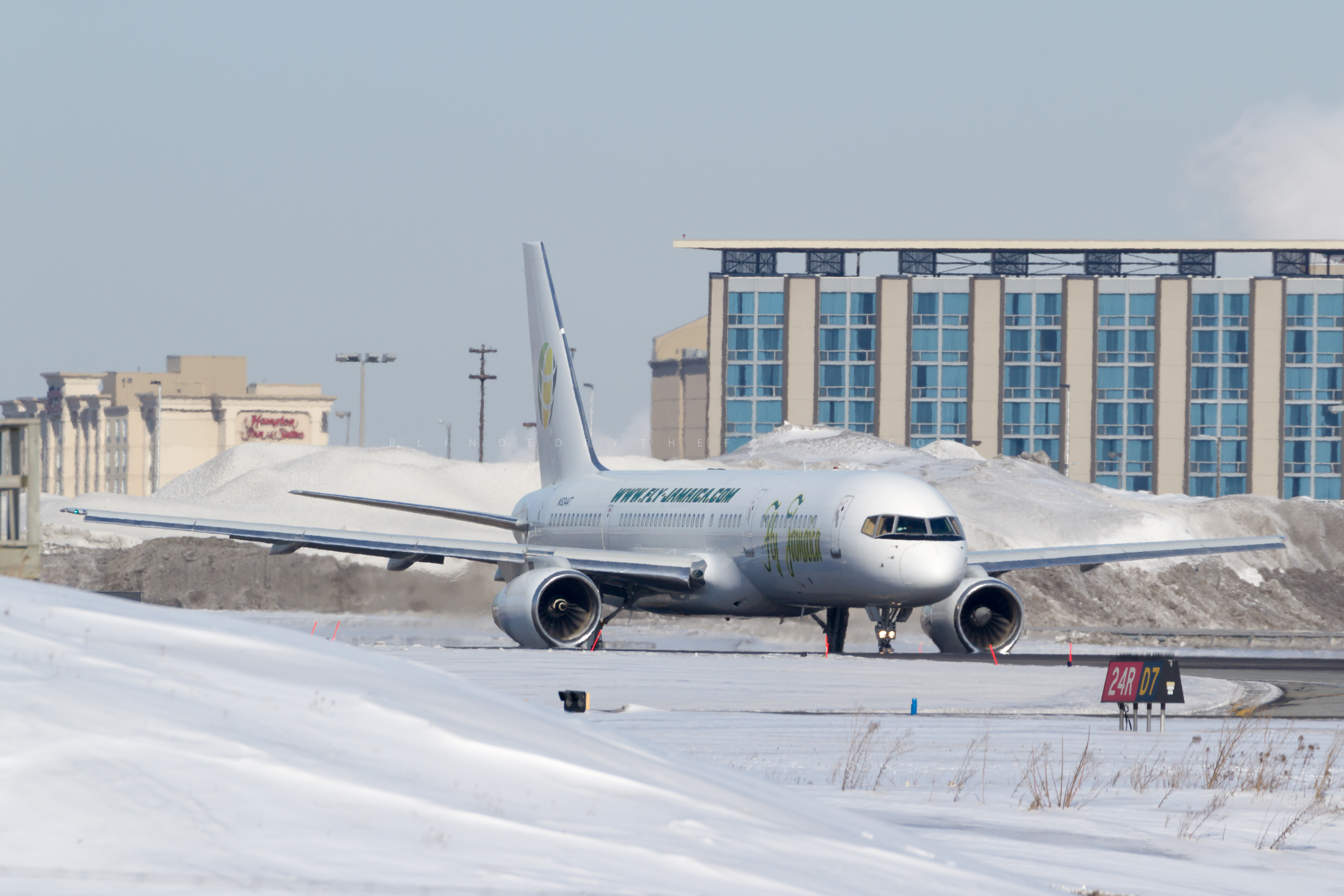 Fly Jamaica Airways Boeing 757-200 registered N524AT taxiing at Toronto Pearson International Airport, Canada.